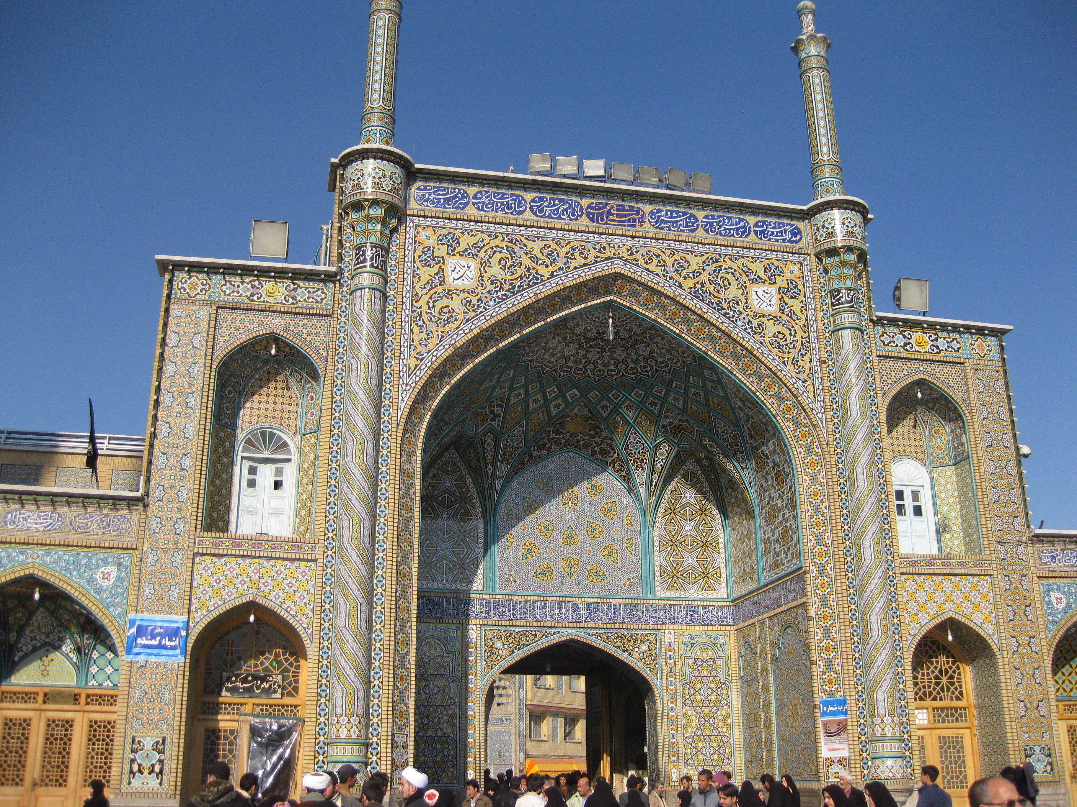 One of the neighboring mosques of Fatimah Ma'sūmah's Shrine, Qom, Iran.